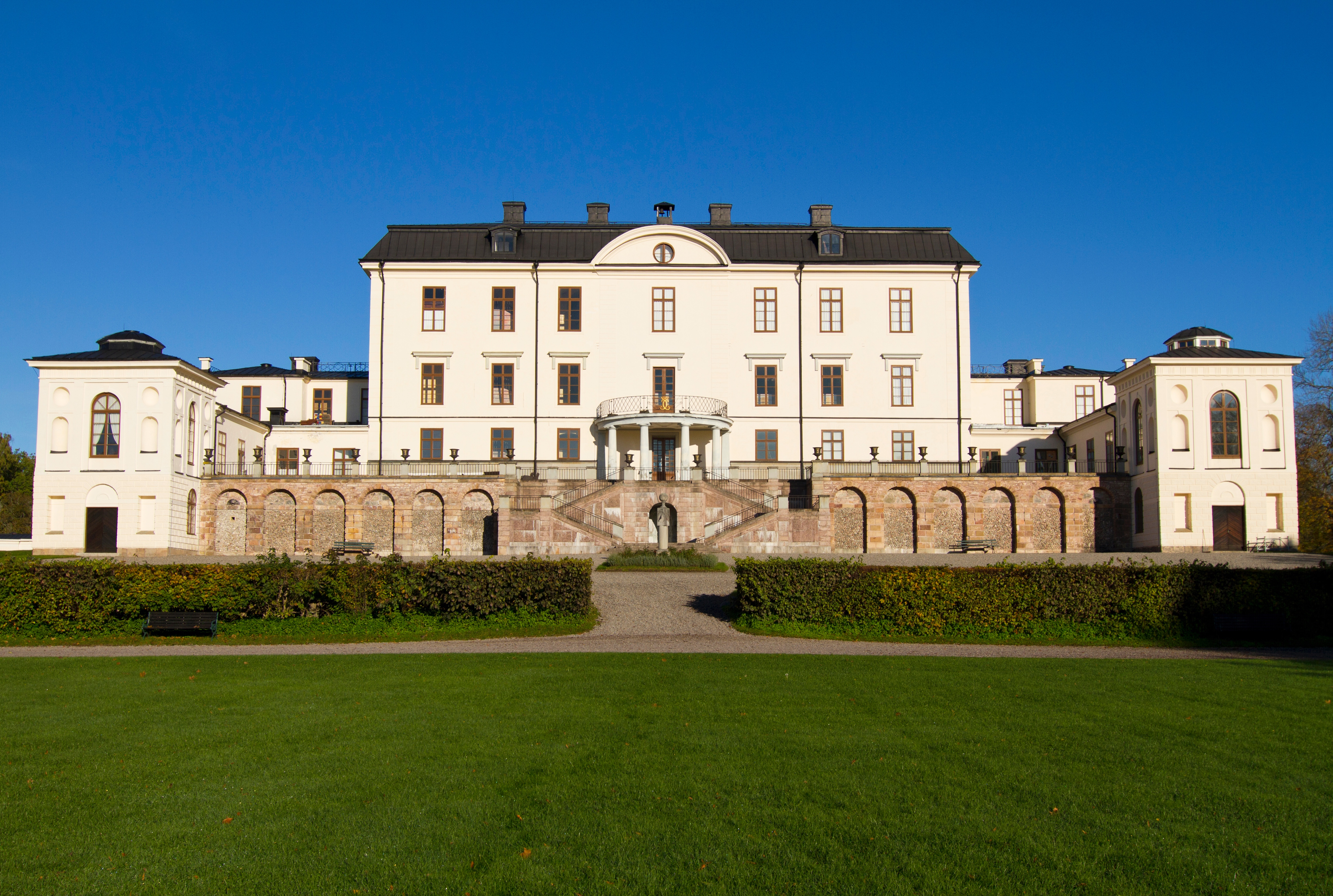 Rosersberg Palace, a royal palace just outside Rosersberg in Sigtuna Municipality, Sweden